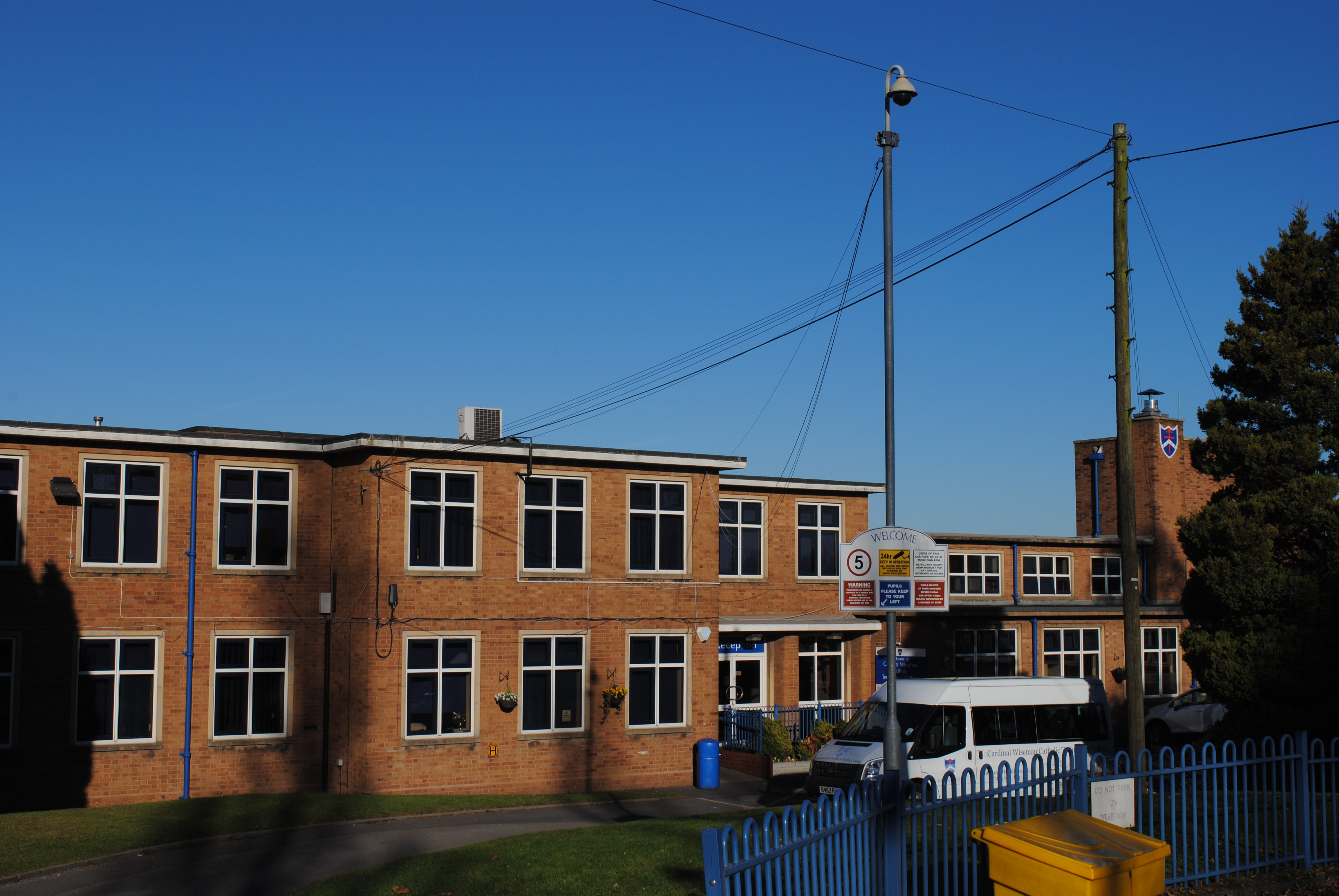 Cardinal Wiseman Catholic Technology College, Old Oscott, Great Barr,Birmingham, England.